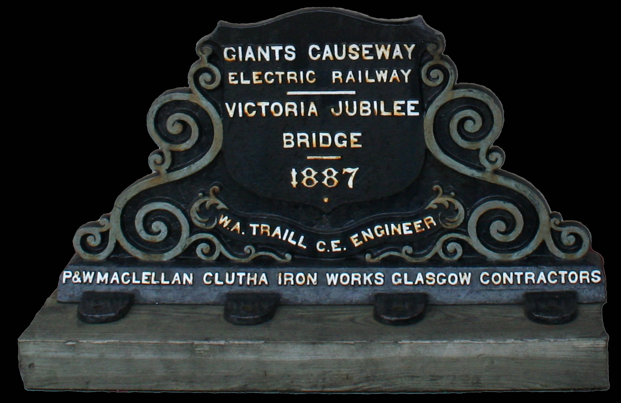 Plaque from Victoria Jubilee Bridge 1887, Giants Causeway Electric Railway photographed on the platform at the Giant's Causeway station, background then blacked out